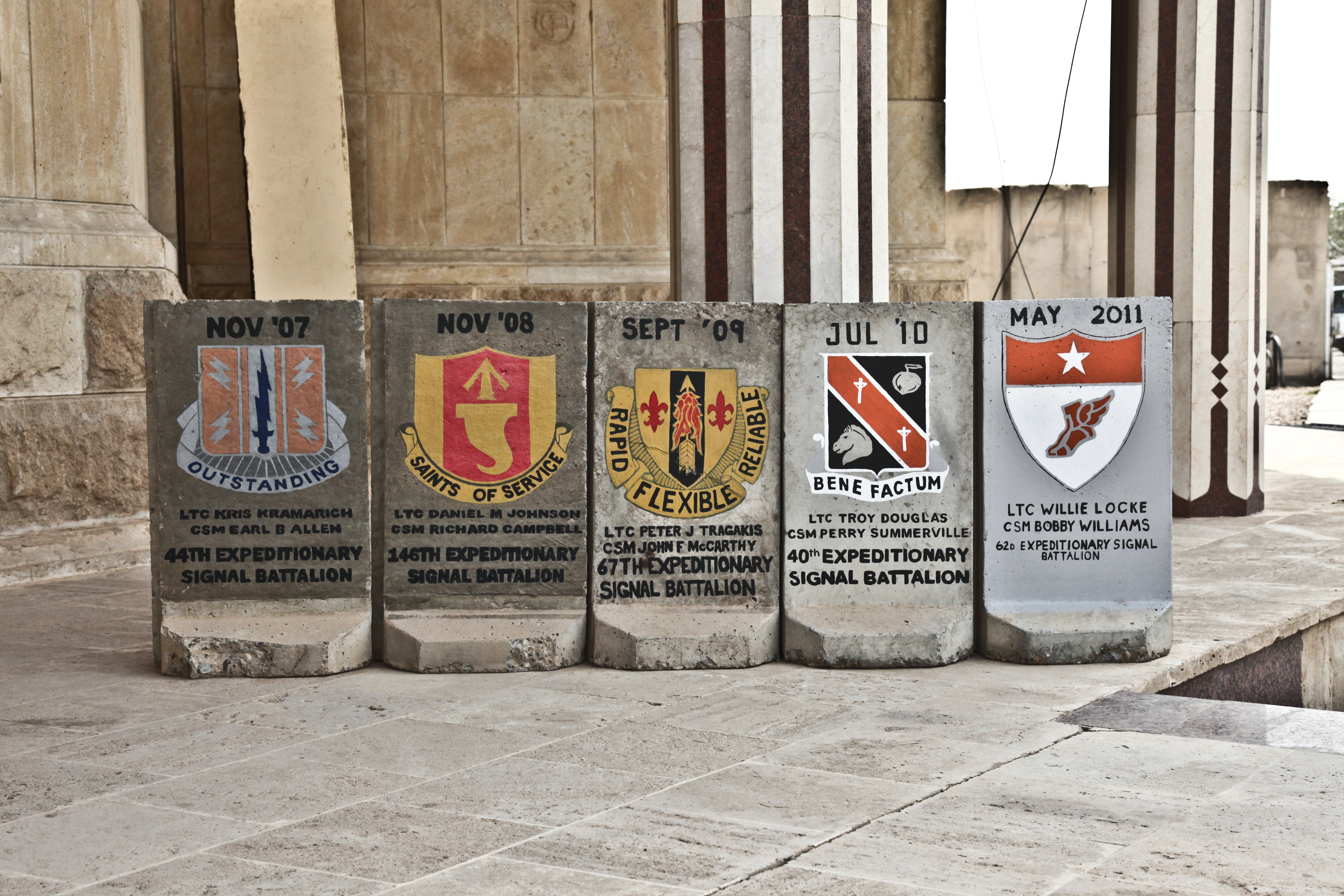 Short T-walls painted with various military insignia at Camp Liberty, Iraq, July 7, 2011. U.S. military and civilian personnel painted a number of T-walls at installations around Iraq and Afghanistan.